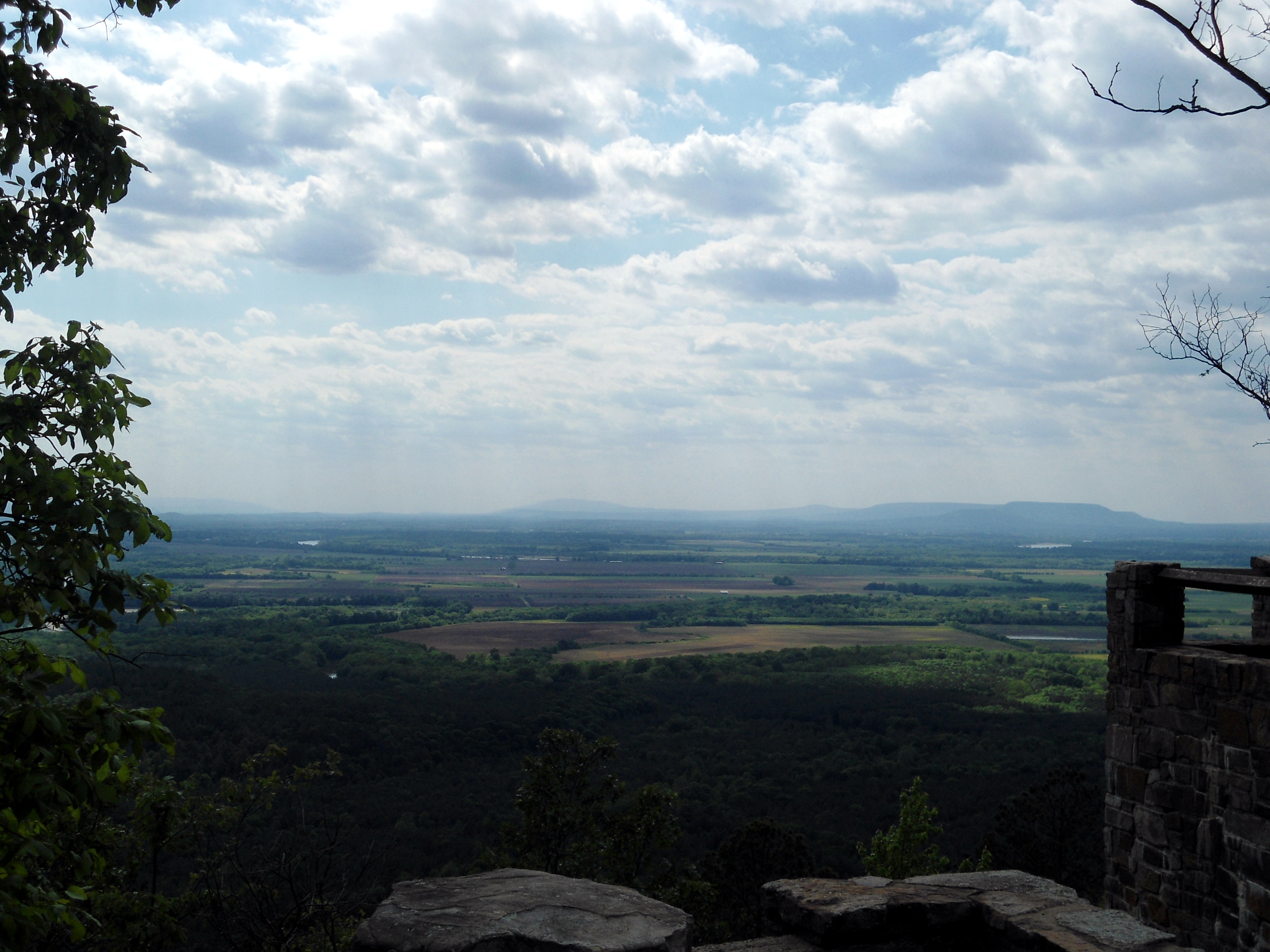 View of the Arkansas River Valley from atop Petit Jean Mountain. Facing west